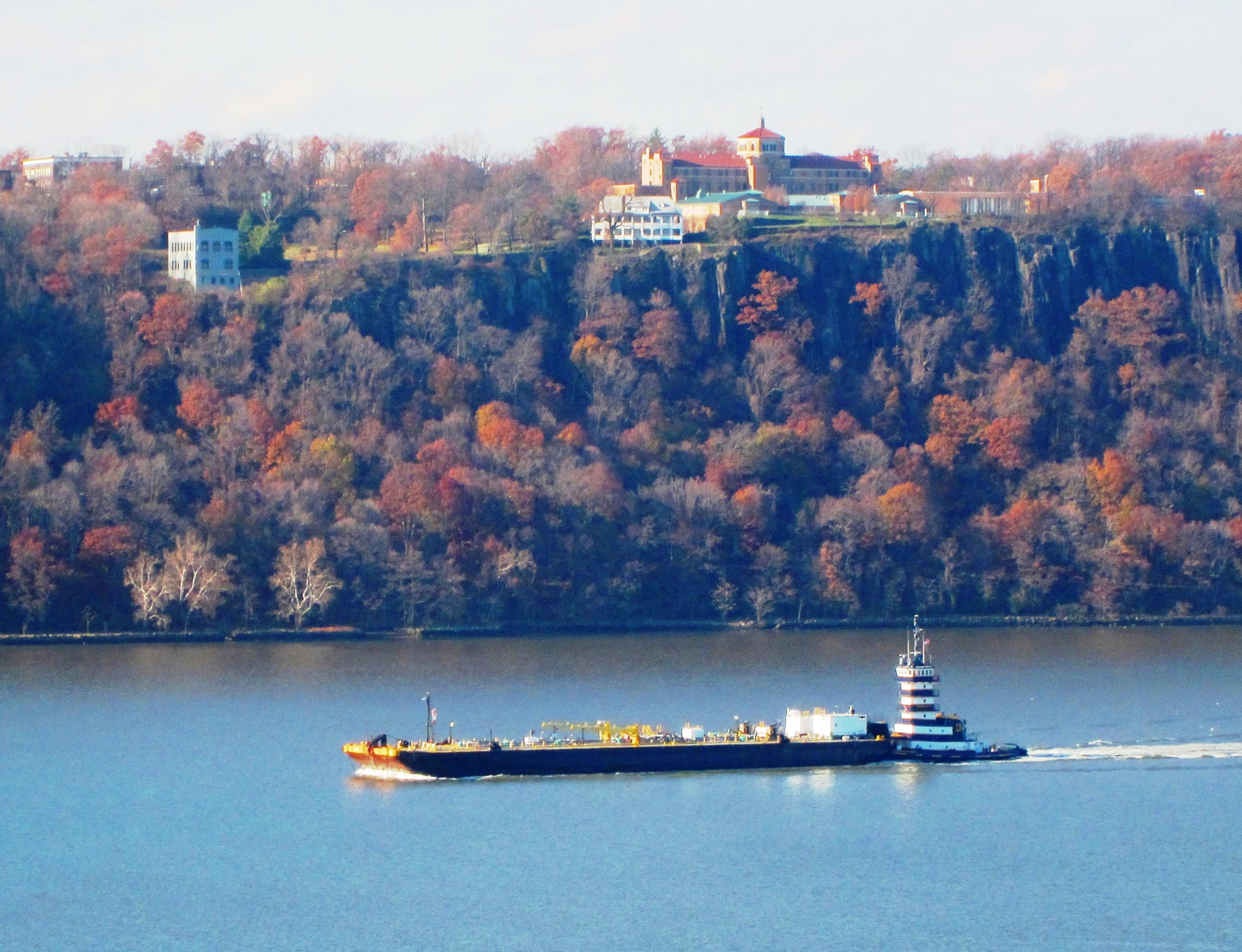 A barge on the Hudson River passes by the Englewood Cliff campus of Saint Peter's University, which sits on the top of the Hudson Palisades. Taken from Fort Tryon Park.